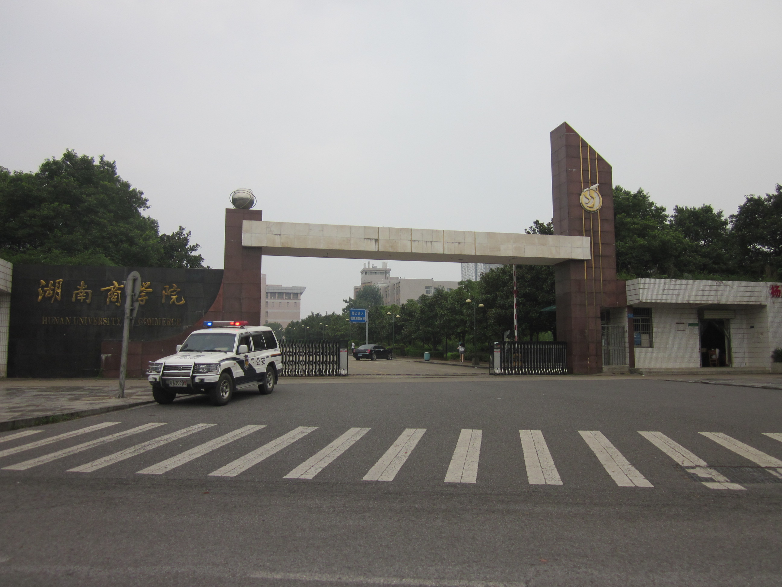 Hunan University of Commerce，or HUC (Chinese: 湖南商学院; pinyin: Húnán Shāng Xuéyuàn)，is a government-sponsored full-time college,and one of the universities and colleges specially supported by the overall economic and social development program of Hunan province. Located in the Lushan University Park of Changsha.